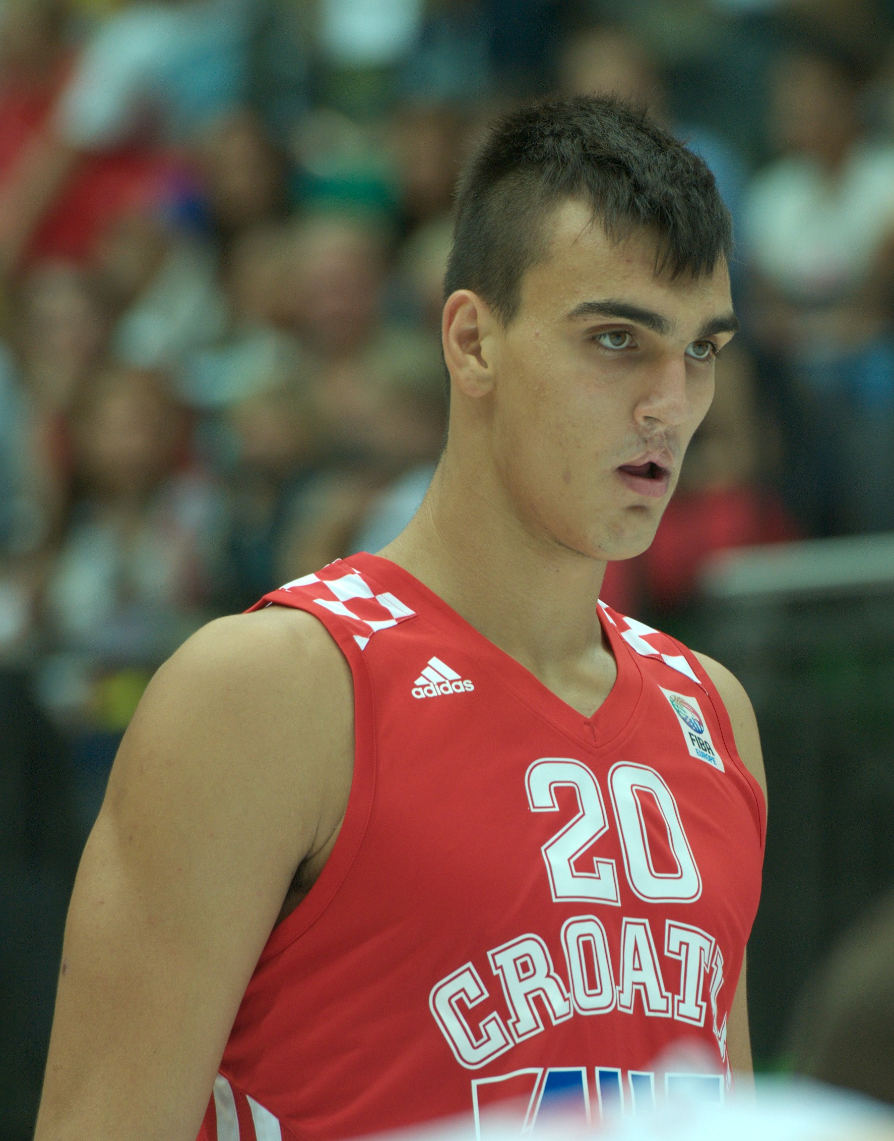 Dario Šarić playing for Croatia national basketball team against Austria in Eurobasket qualifier.